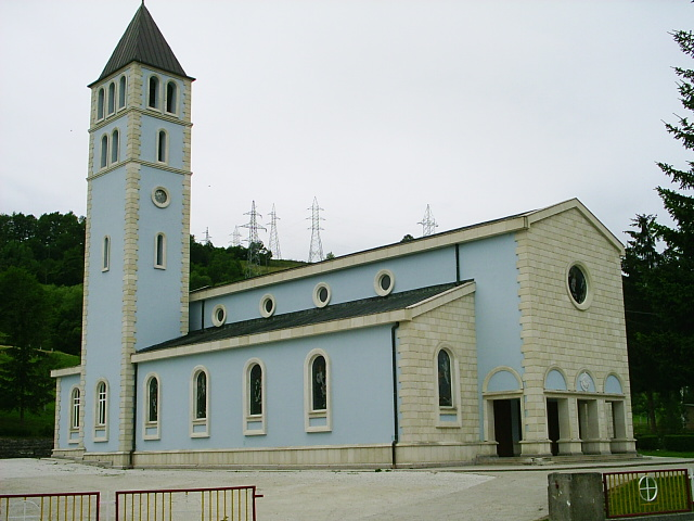 Catholic church in the town of Prozor-Rama, BiH